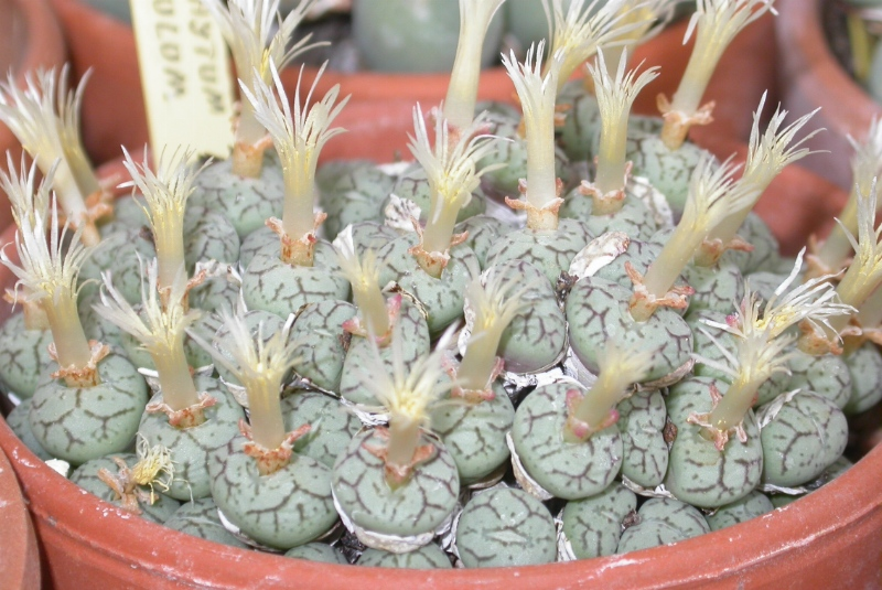 Personnal collection